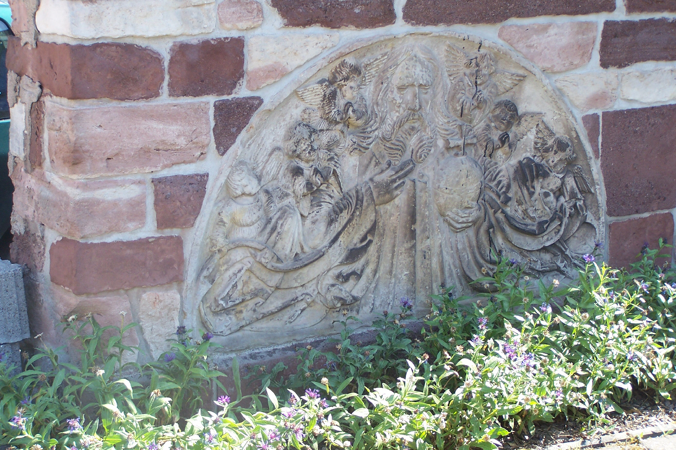 A so called Paradiesstein - showing Jesus Christ (the king) in Engelsbach village.